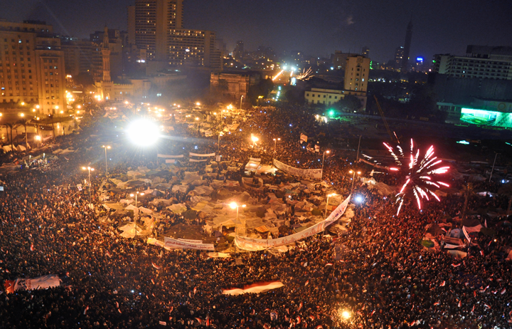 Celebrations in Tahrir Square after Omar Soliman's statement that concerns Mubarak's resignation. February 11, 2011 - 10:15 PM